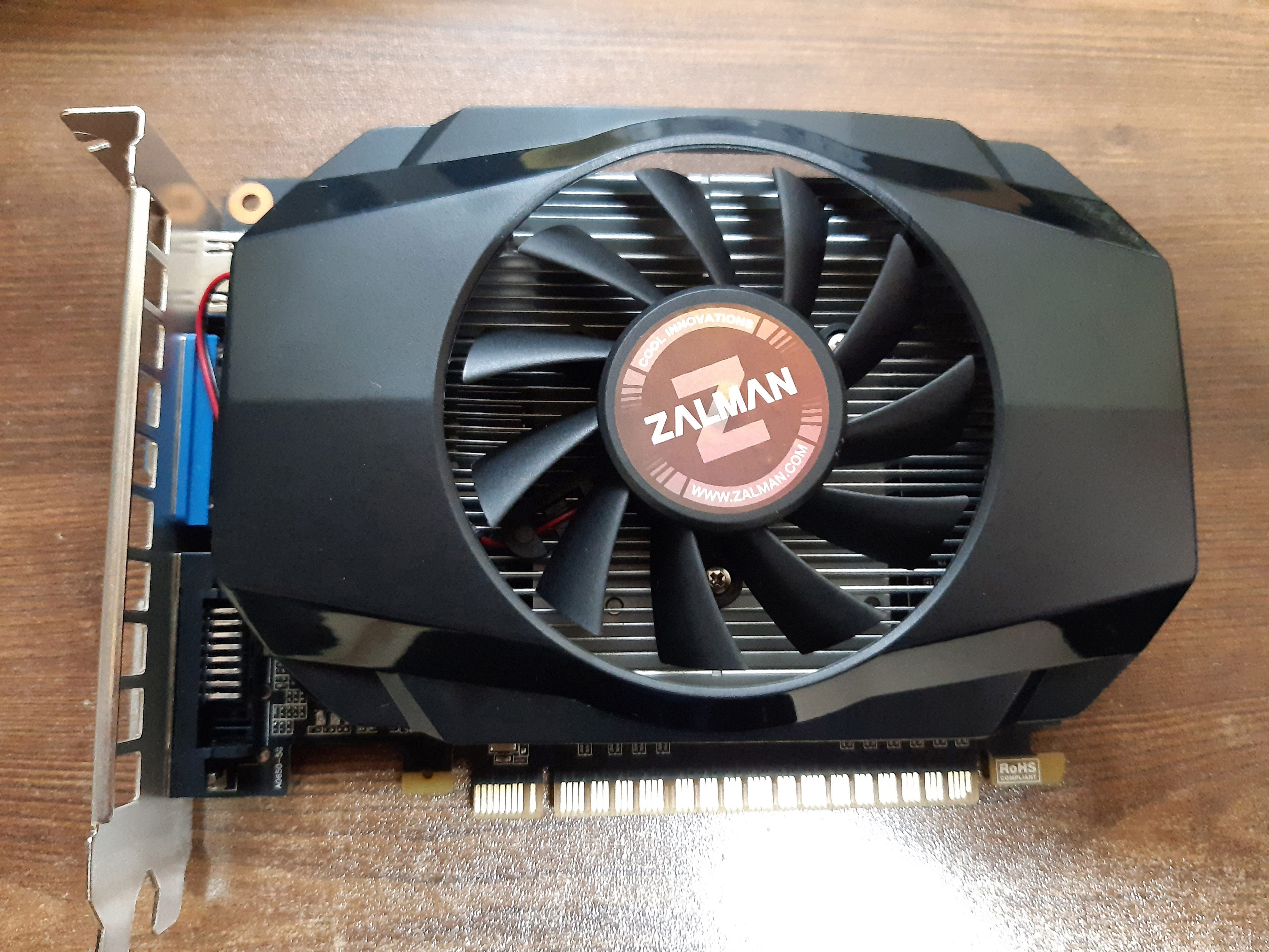 Graphic card